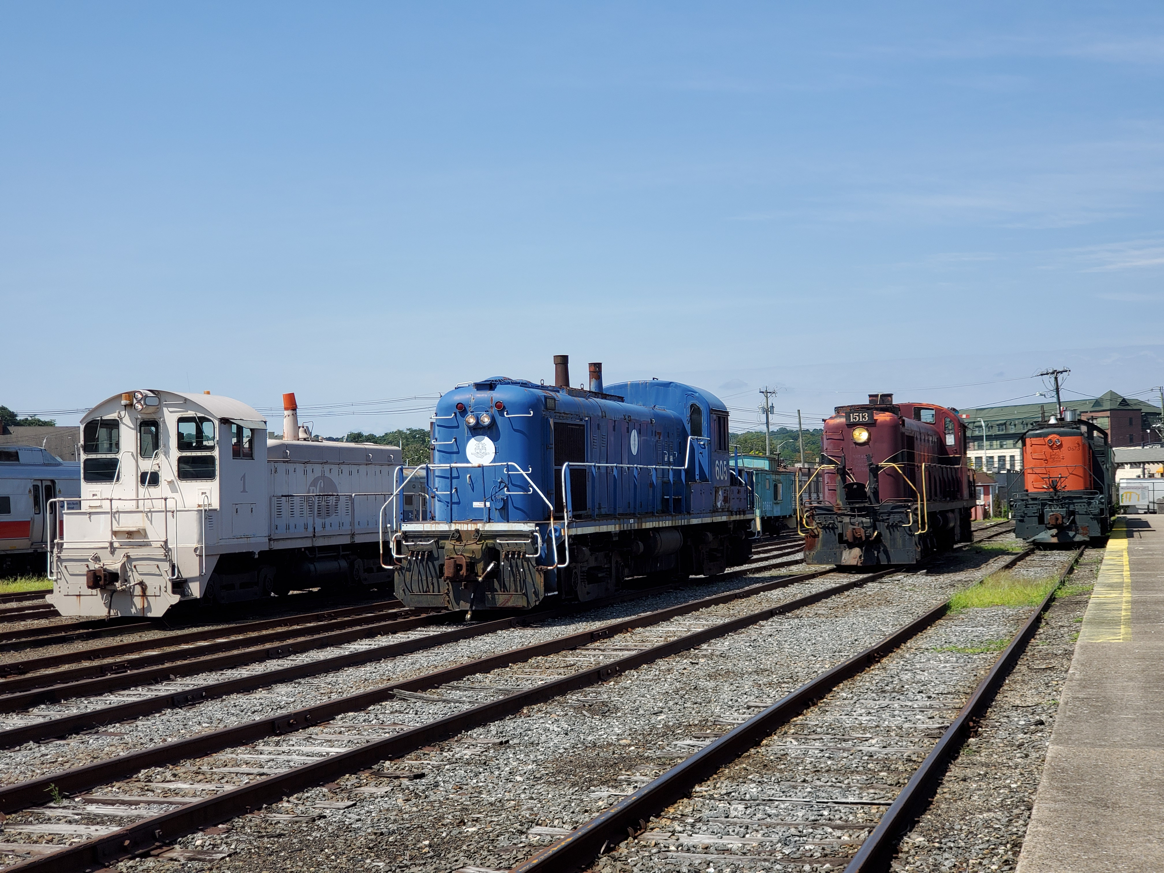 Four diesel locomotives at the Danbury Railway Museum in Danbury, Connecticut